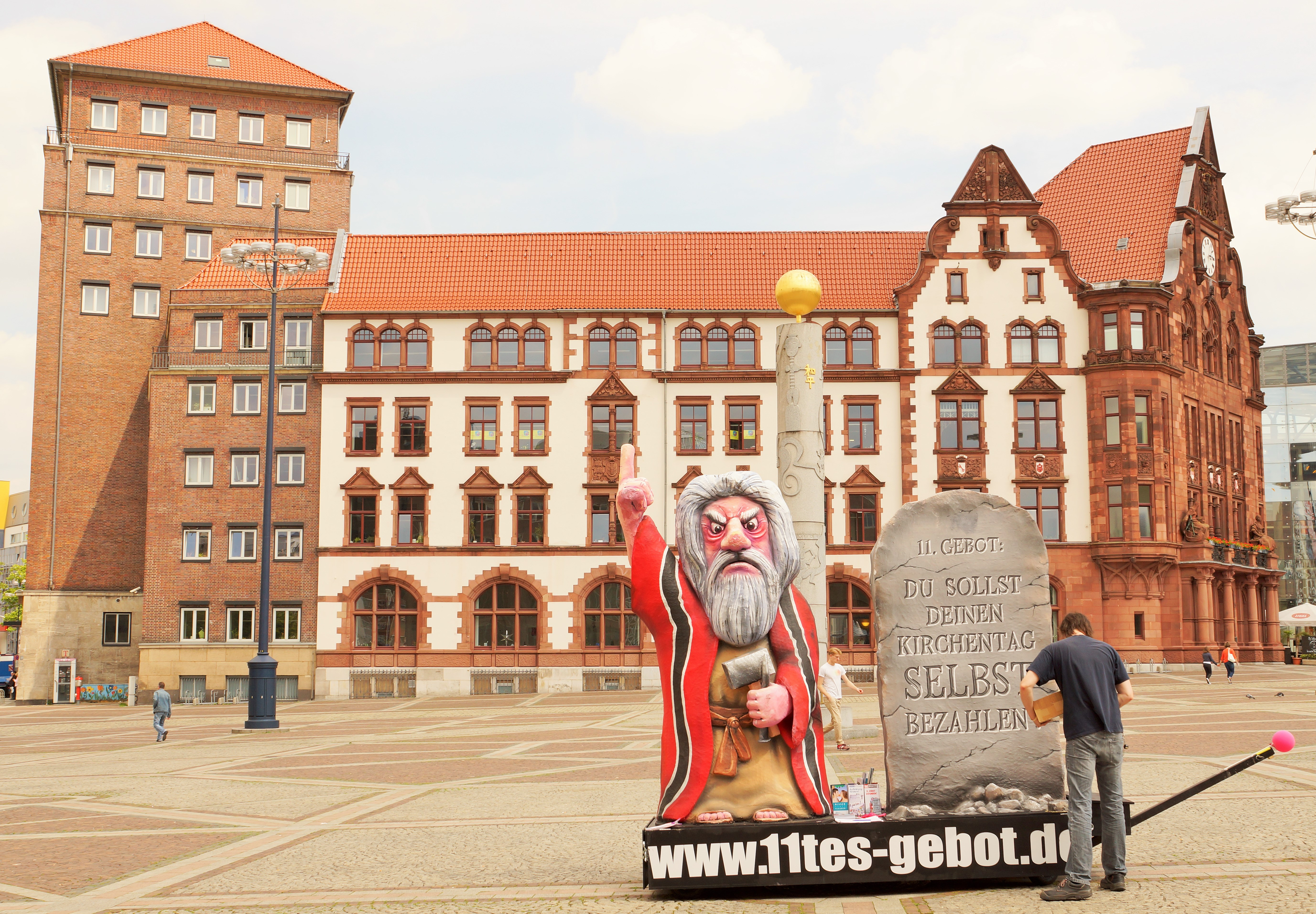 Criticism of church and churchday finance with "Moses 11. commandment" sculptures. On the Moses sculpture stands: "Thou shalt pay thy church-day self". At the 37th Protestant Church Day 2019 in Dortmund, Germany